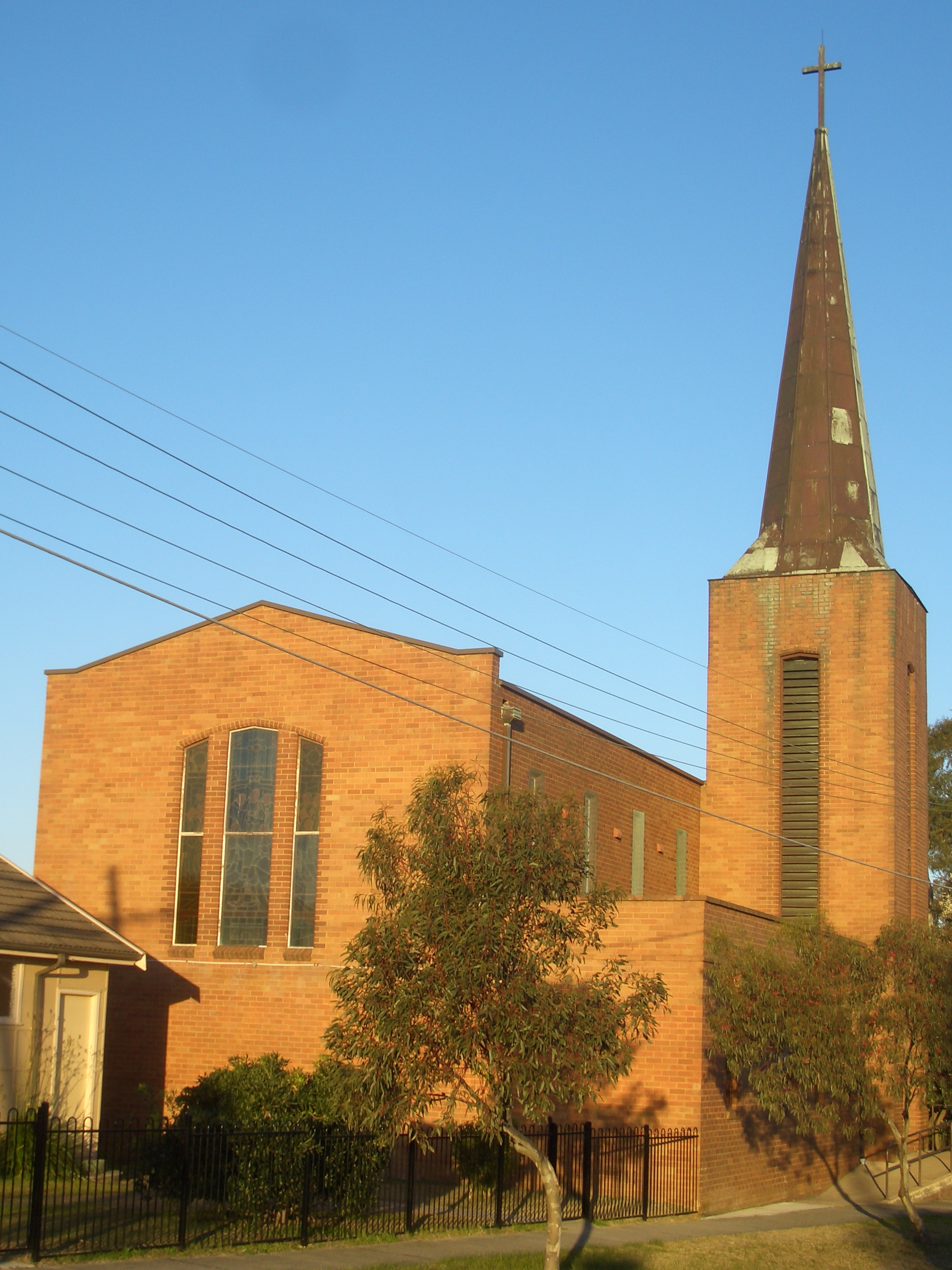 Wild Street Anglican Church Maroubra